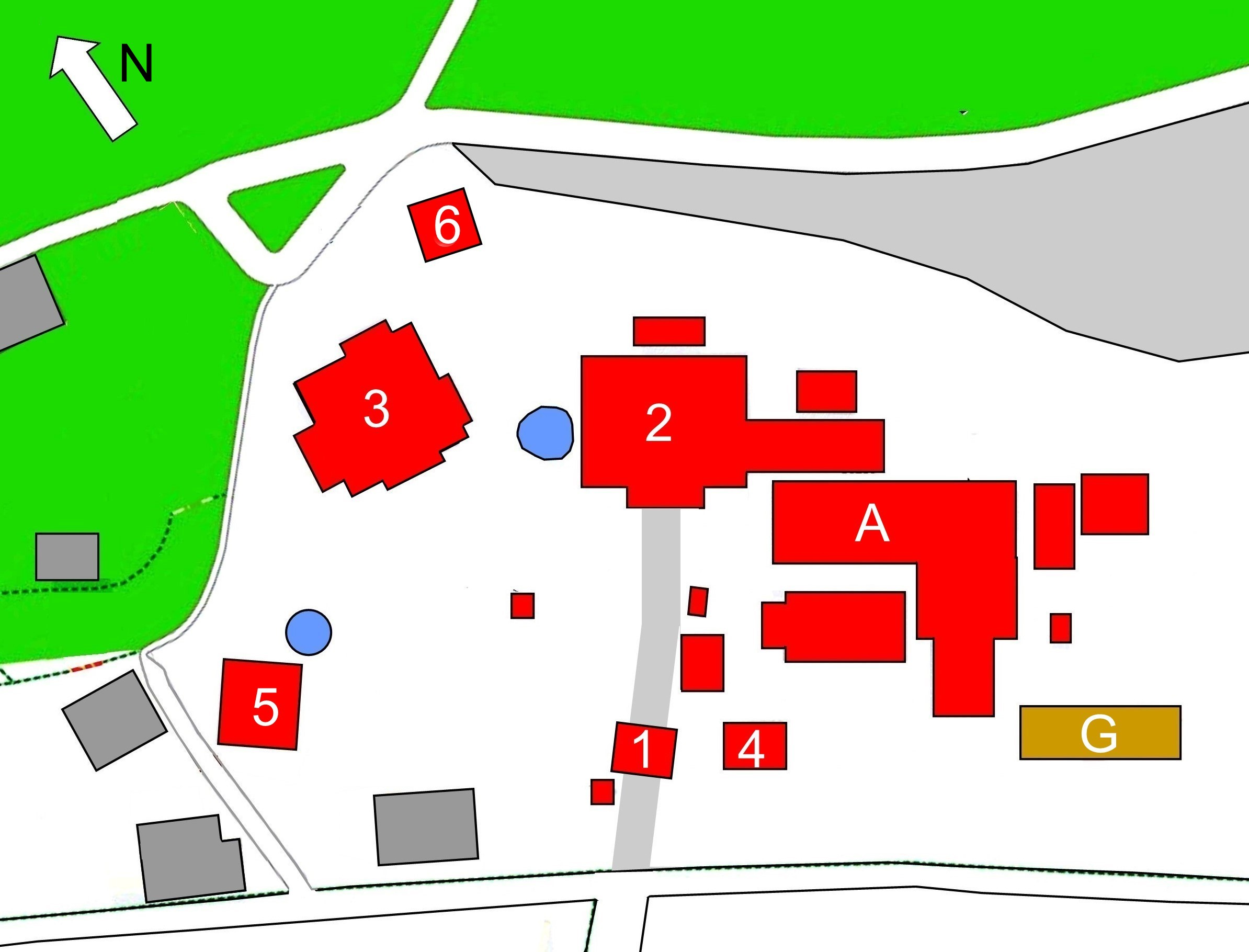 Layout of Jindaiji temple at Chôfu, Tokyo Prefecture, Japan